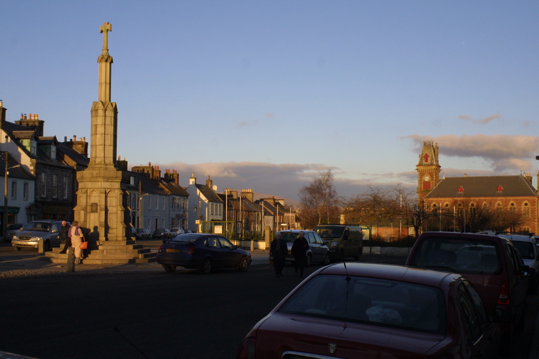 1816 Mercat Cross, Wigtown. Photo by Shaun Bythell.